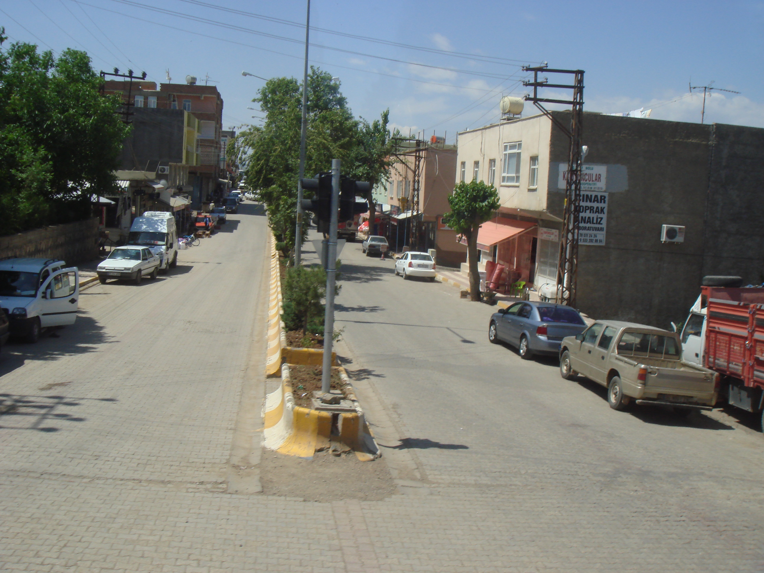 Çinar, town south of Amed/Diyarbekir, 2012 Kurdî: Çinar, Diyarbekir, 2012.